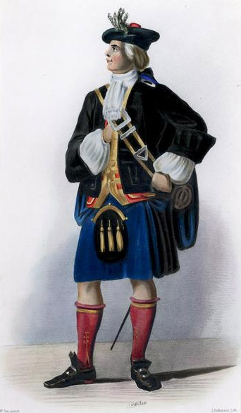 "Mac Intire". A plate illustrated by R. R. McIan, from James Logan's The Clans of the Scottish Highlands, published in 1845.